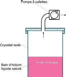 Cryostat à bain pompé